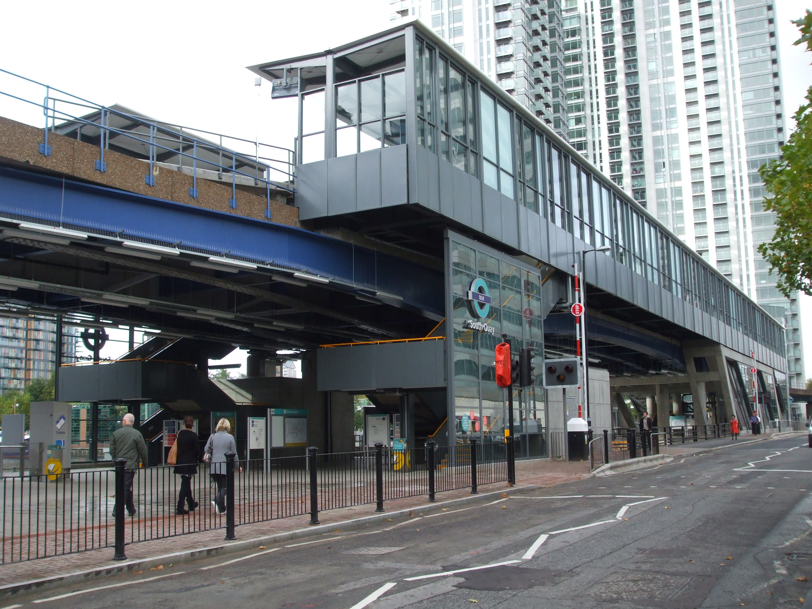 The new South Quay DLR station eastern entrance, the day after opening.